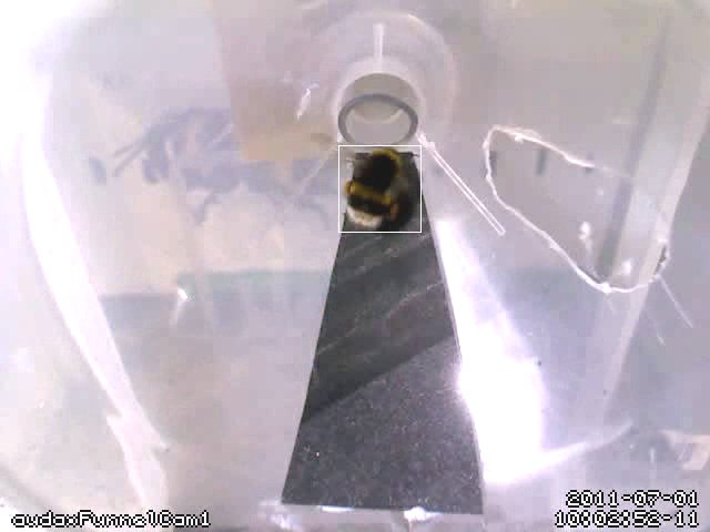 Showing Rana blob detector in action. The bounding box indicates the position of blob (a moving bee) within the visual field